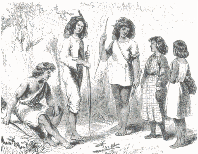 Members of the Chetco tribe of Native Americans in 1855.